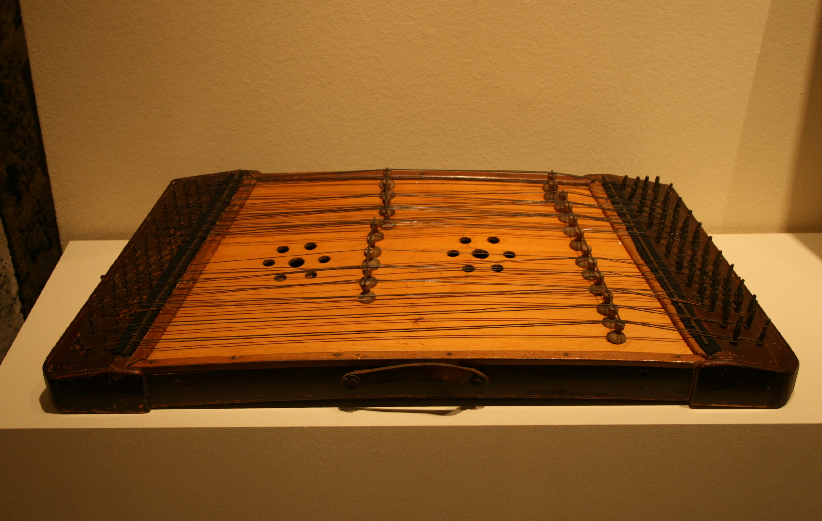 Greek Sandouri built between 1940 and 1960